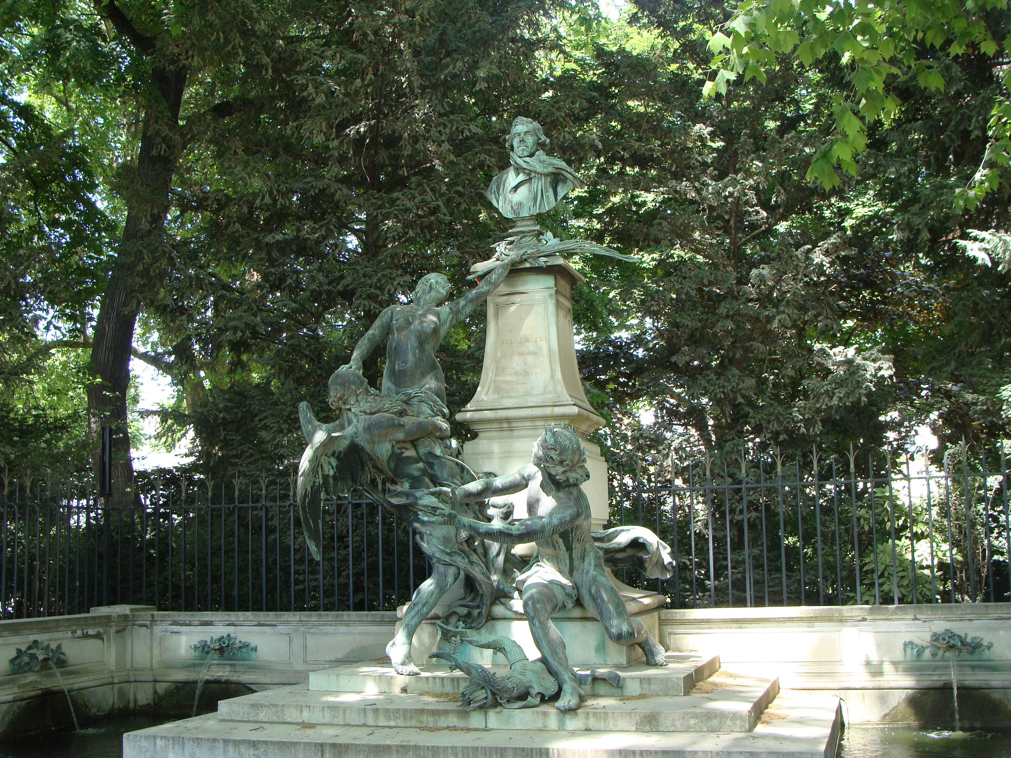 Monument à Delacroix by Jules Dalou